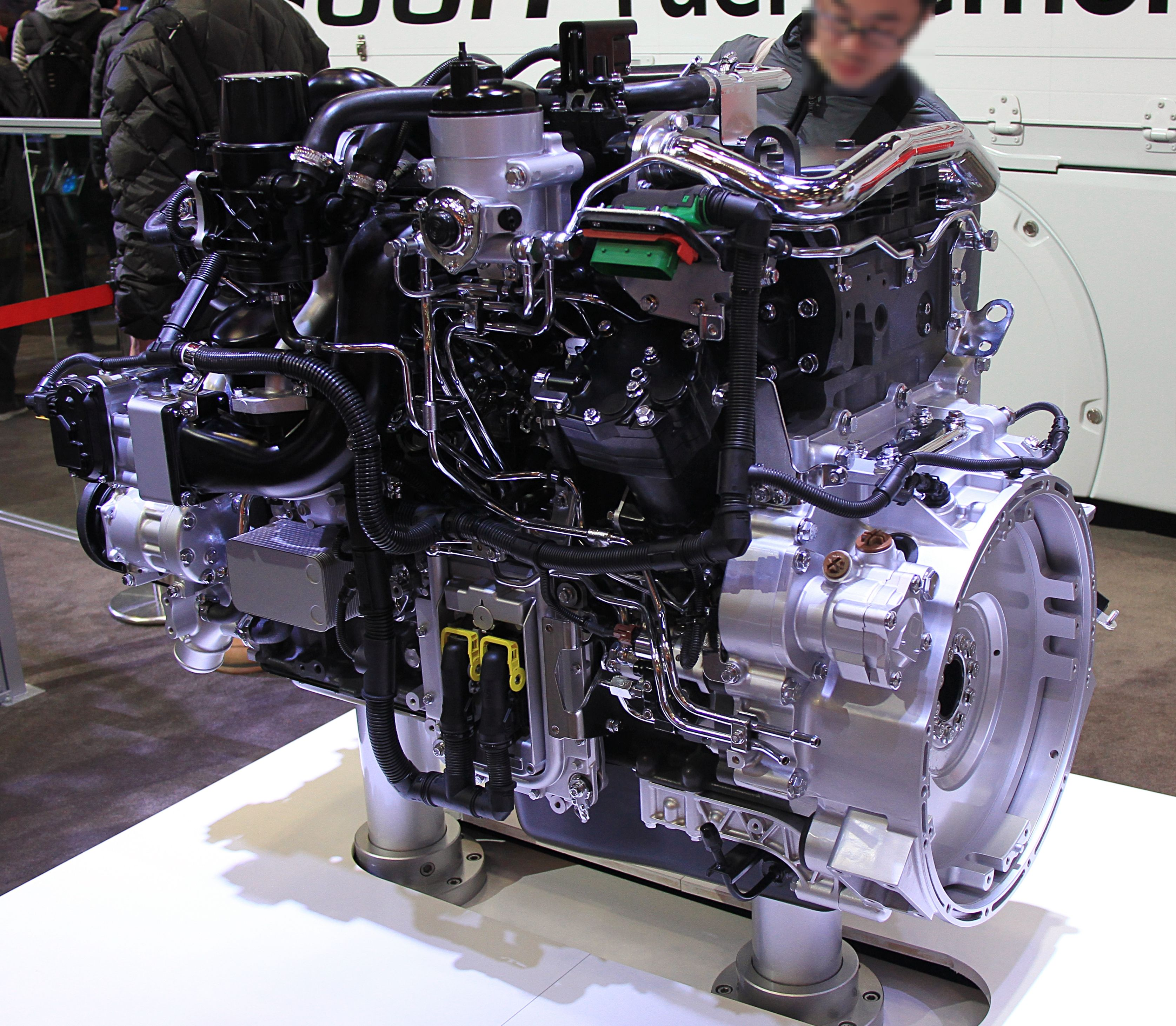 UD GH7